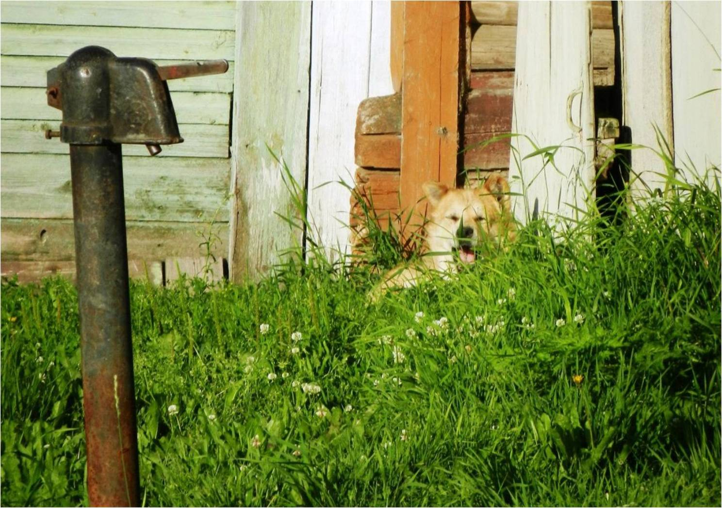 A stand-pipe in Zelenskaya Rybatskaya Sloboda (Totma)